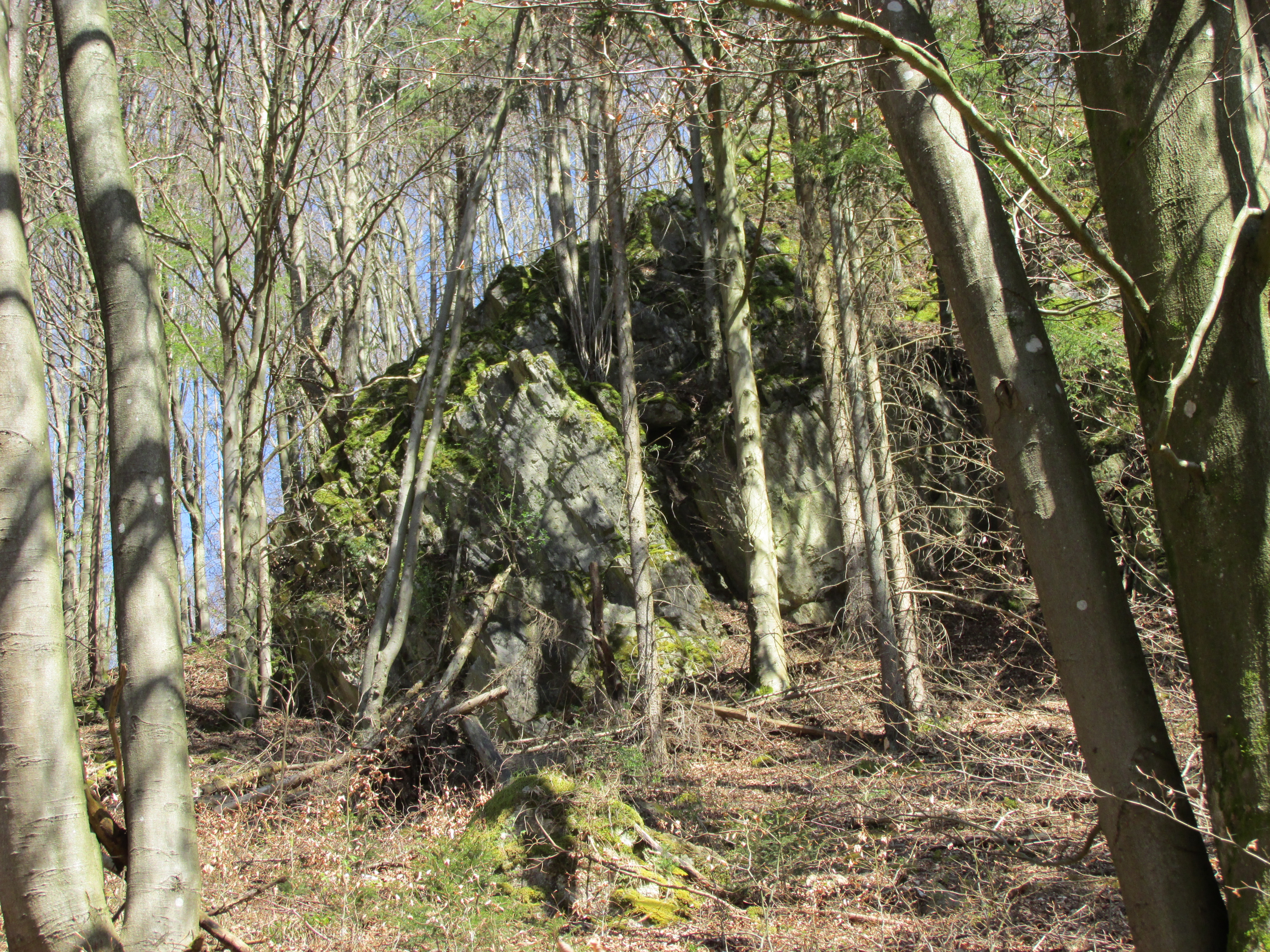 Nature reserve OE-040 Breiter Hagen, Attendorn, Germany check usage